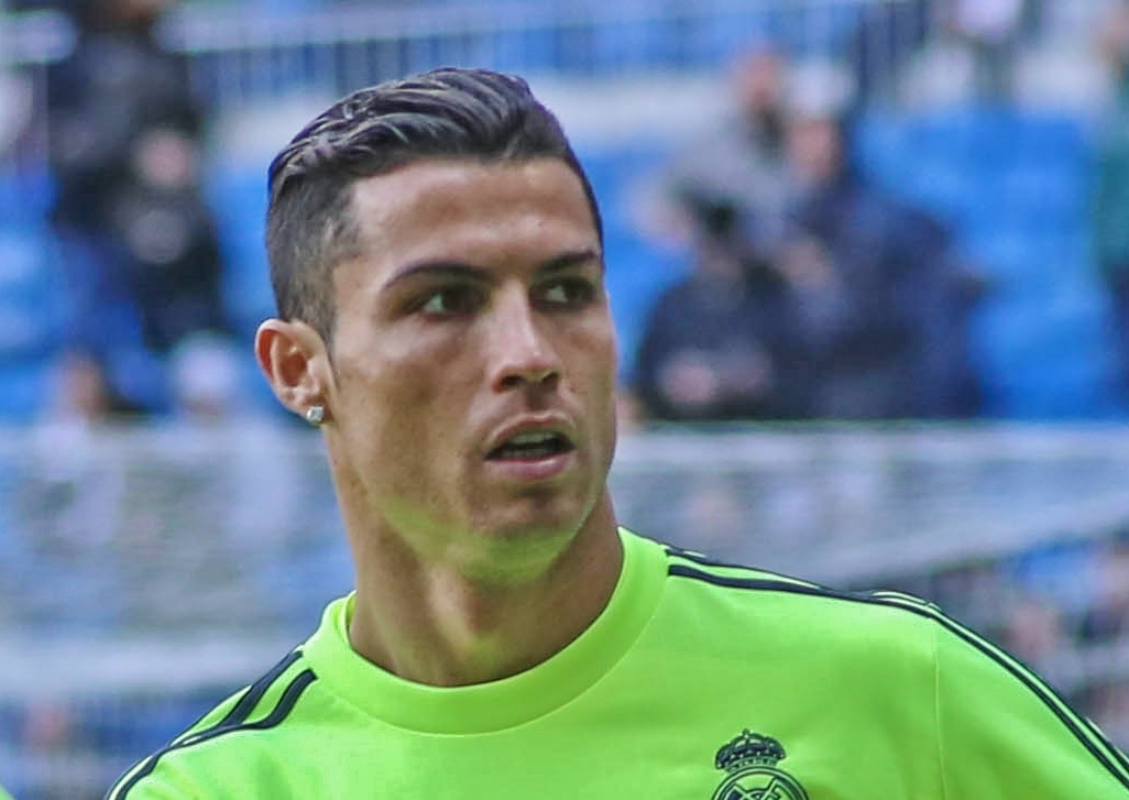 Cristiano Ronaldo during Real Madrid–Celta de Vigo (7-1).